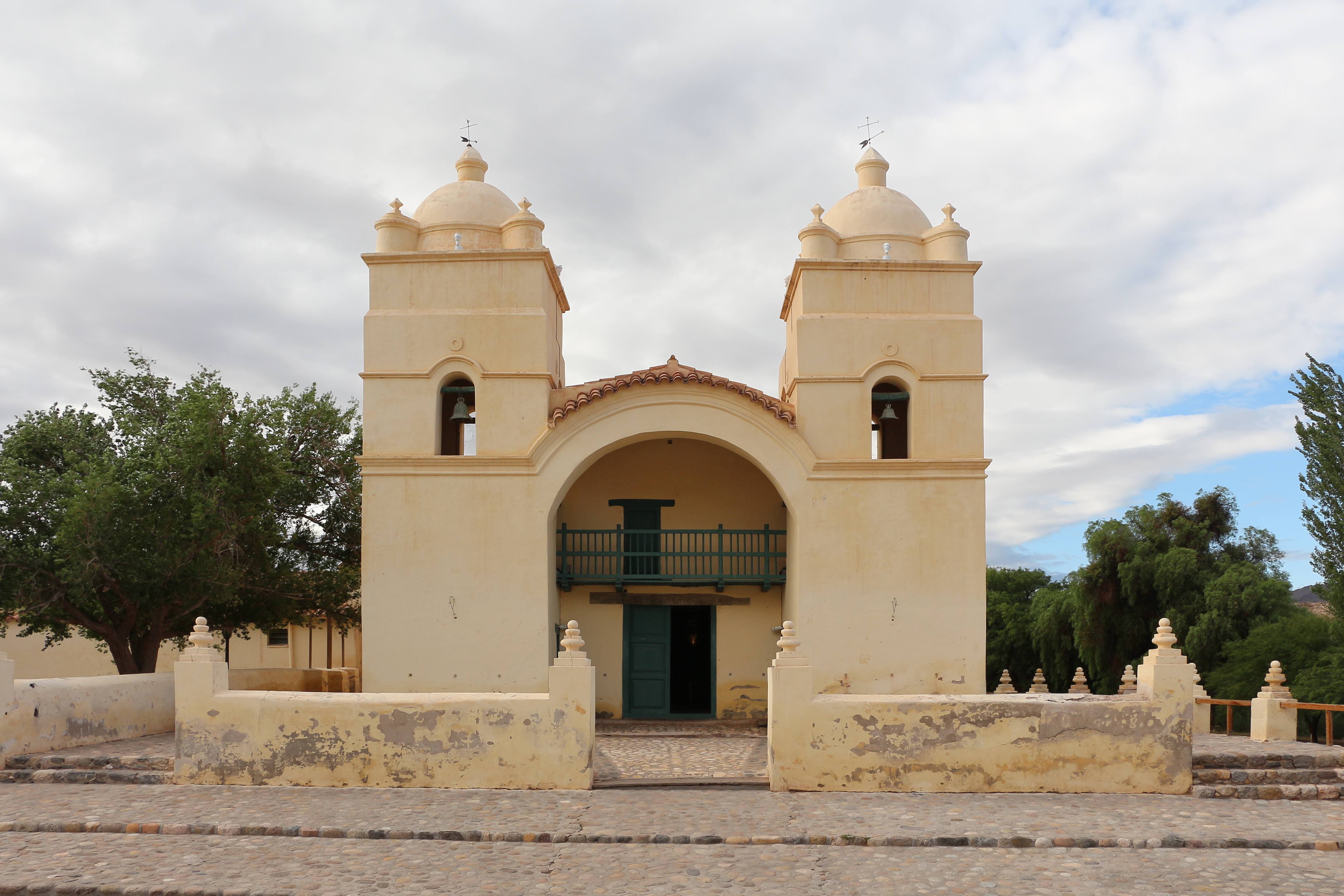 San Pedro Nolasco de los Molinos Church, Molinos, Argentina